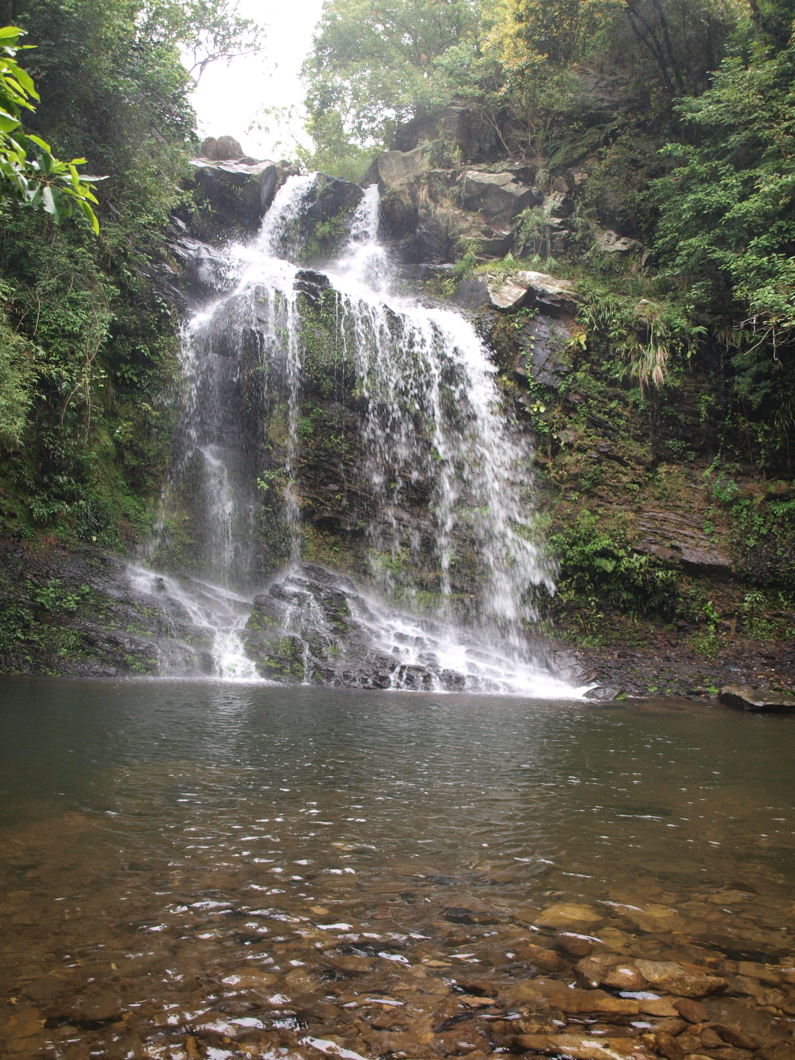 This photo was taken at Bride's Pool in Hong Kong.